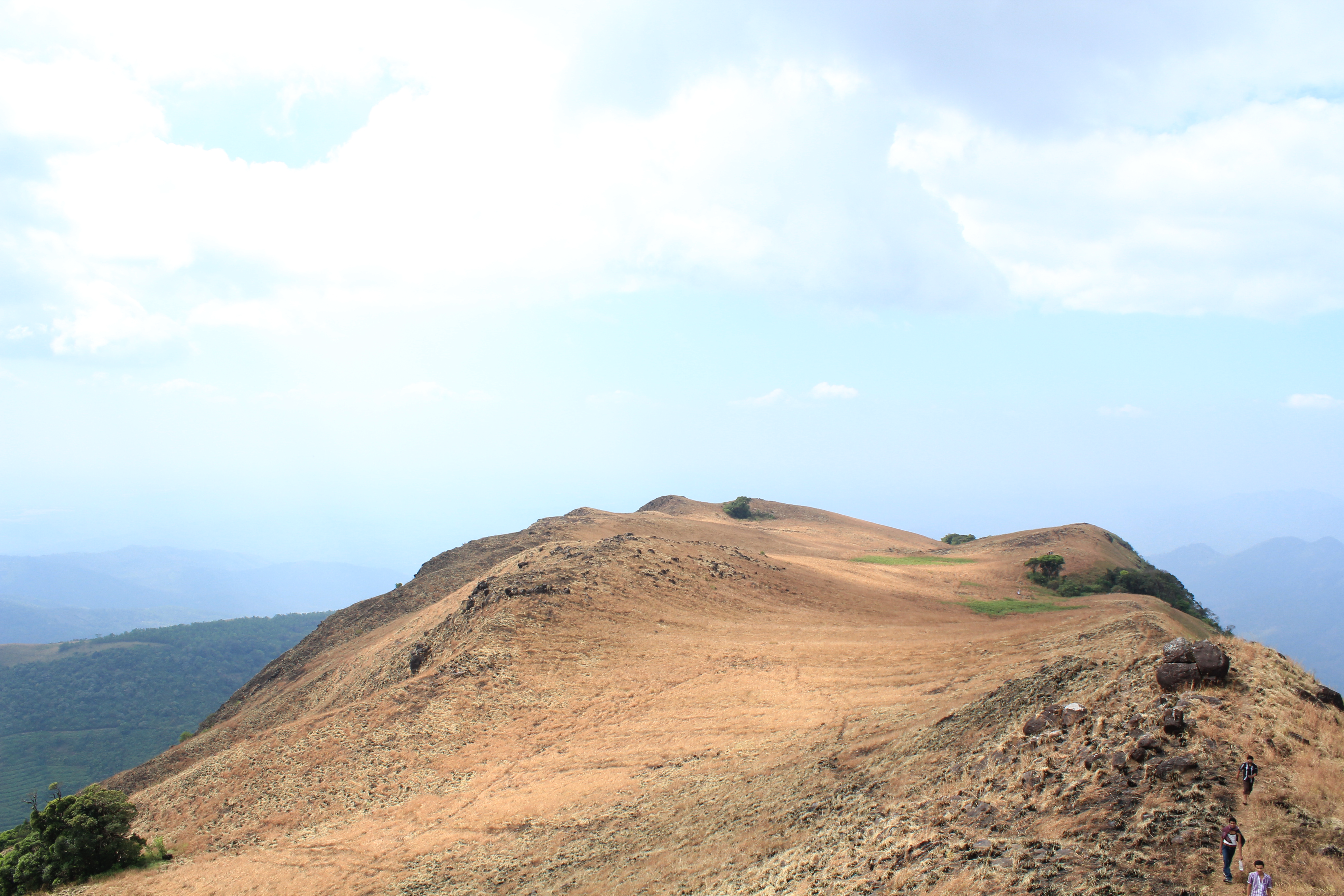 paithalmala